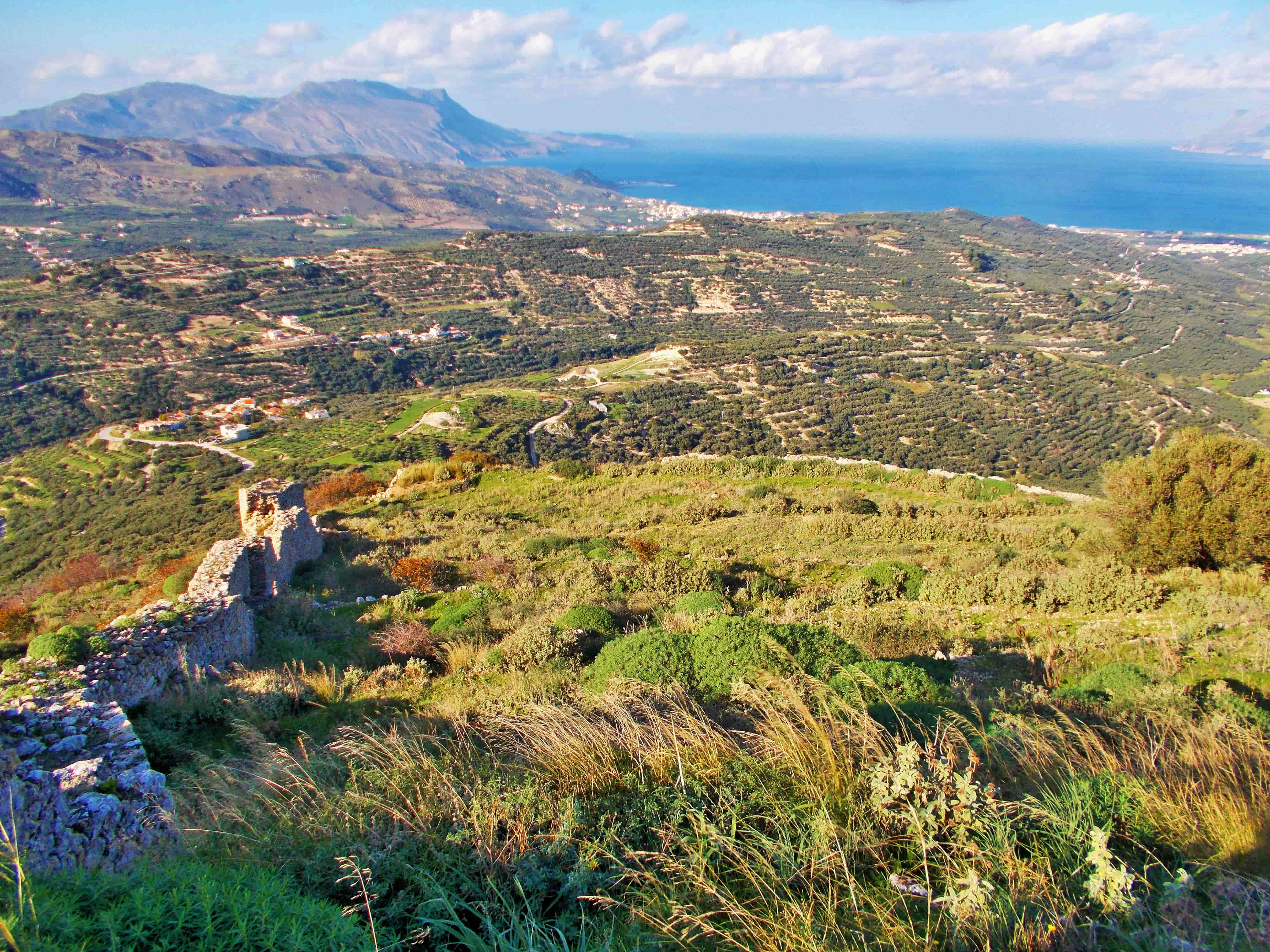 Polyrrinia«Πολυρρήνια Χανίων»